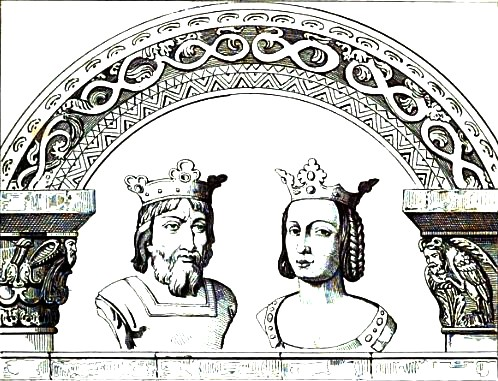 Hugh Capet and his wife Adelaide of Aquitaine